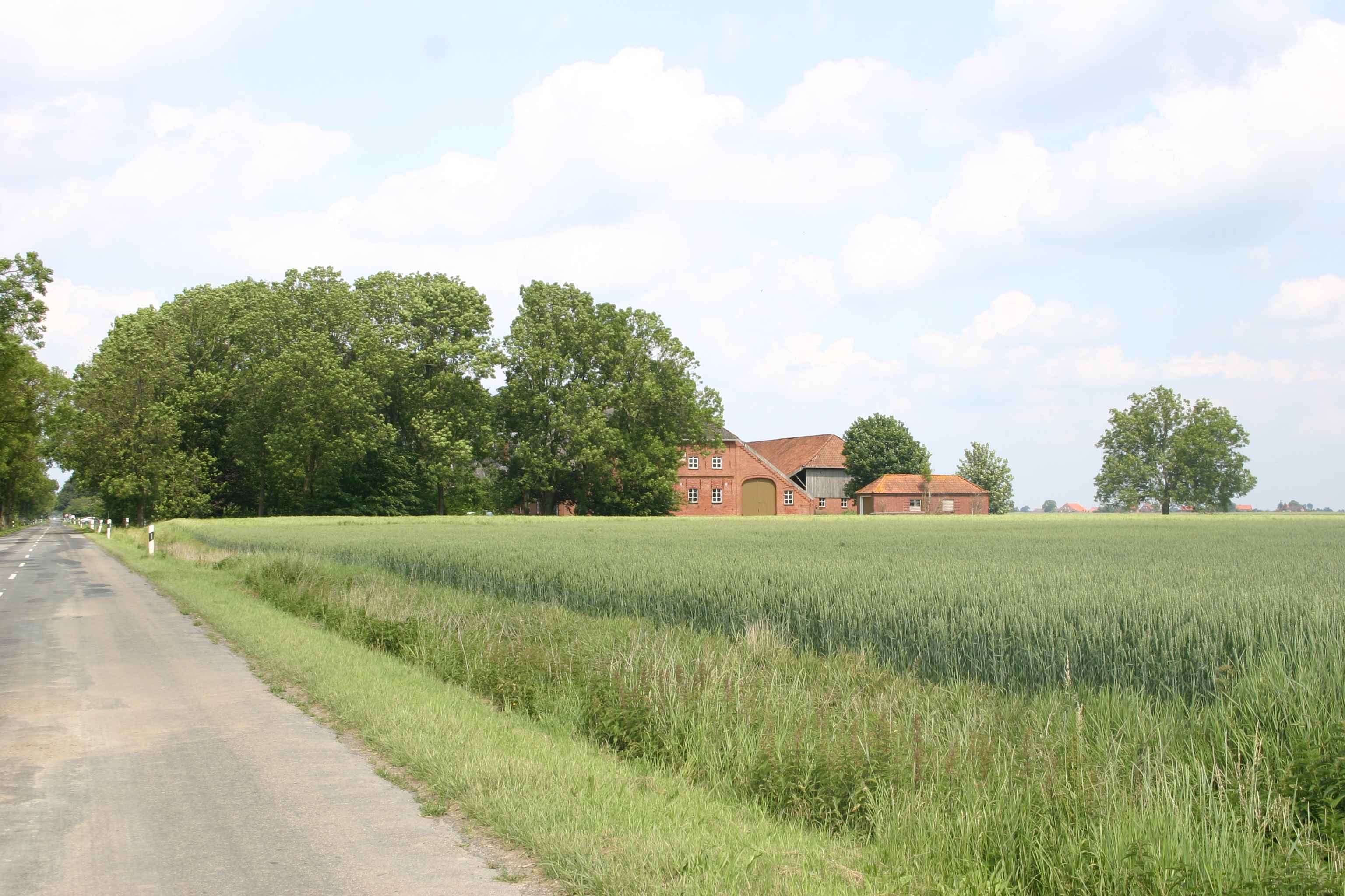 Farmhouse in Landschaftspolder, community of Bunde, district of Leer, East Frisia, Germany.